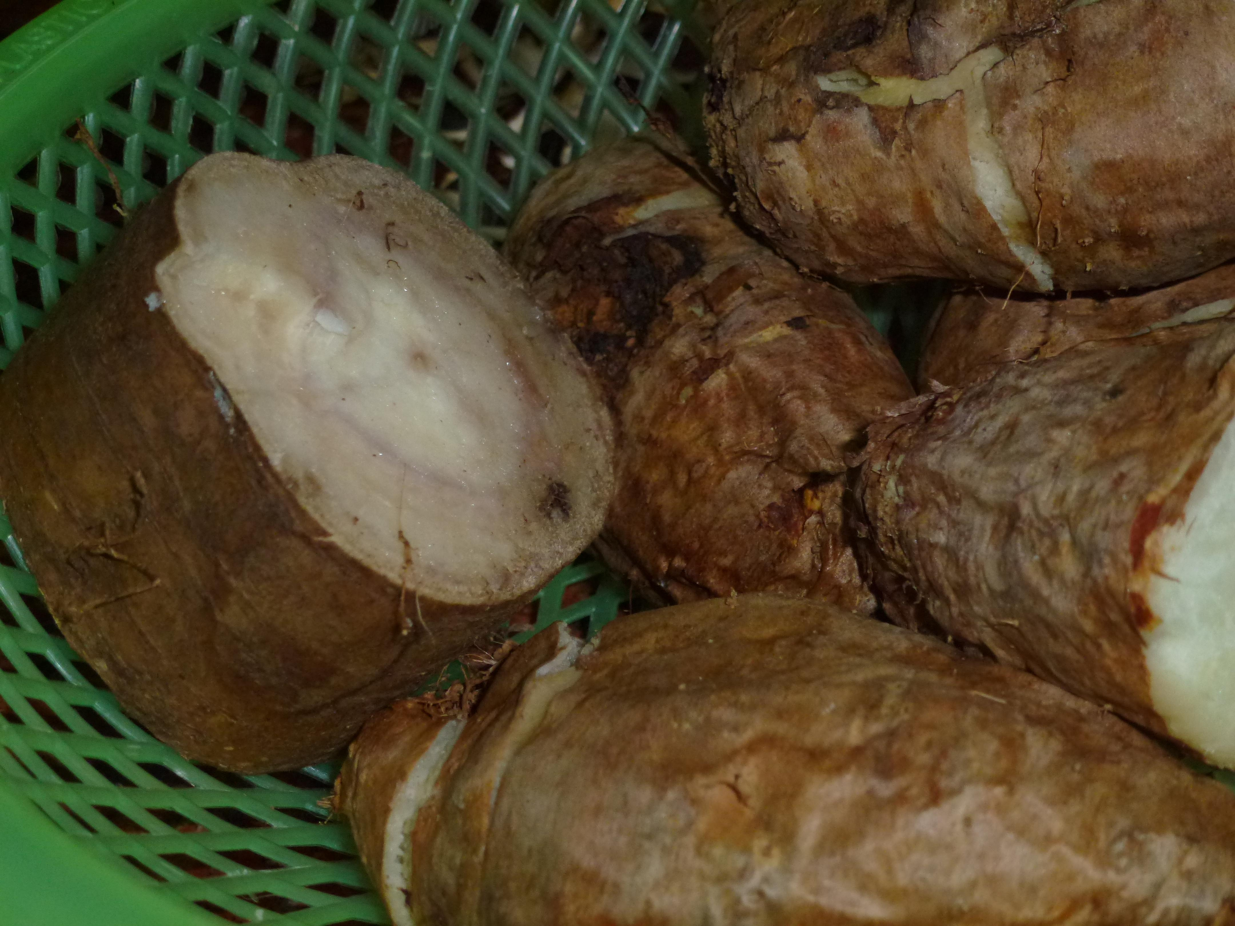 Pueraria thomsoni (Pueraria lobata) tuber & Dioscorea esculenta tuber